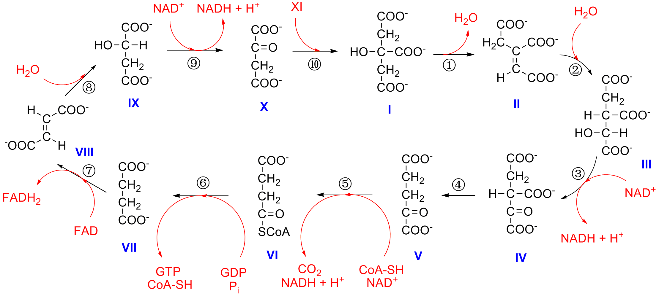 citric acid cycle